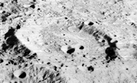 Oblique view of Koch crater, on the far side of the moon, facing roughly south.